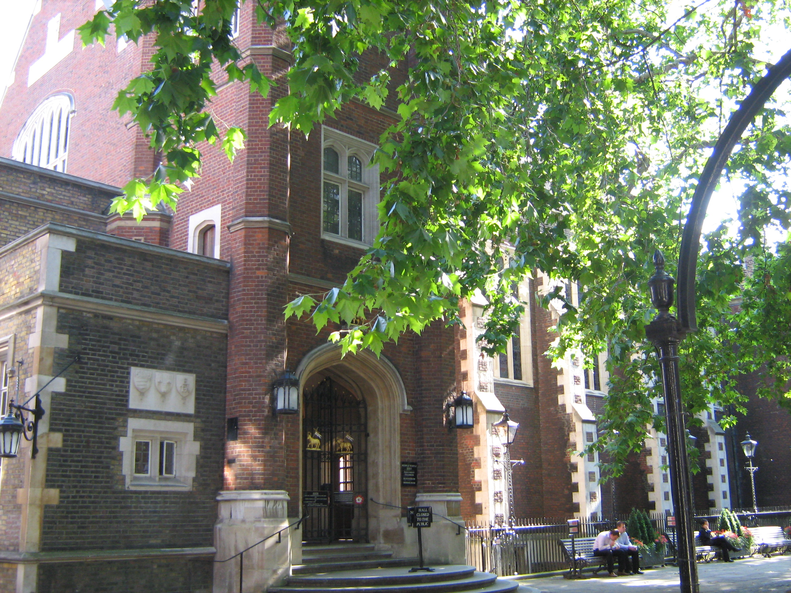 Middle Temple Hall, a beautiful Elizabethan building, hosted Shakespeare and the Lord Chamberlain's Men. They performed for royalty in this hall.